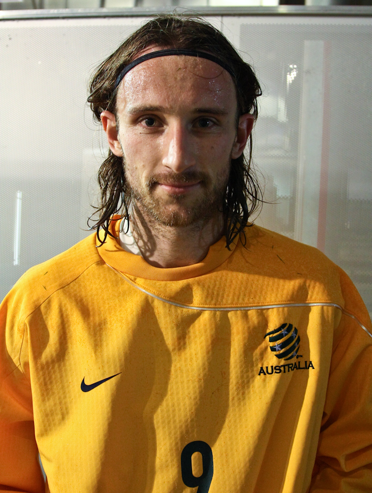 Joshua Kennedy after a training session at ANZ Stadium the day before a World Cup Qualifying game against Uzbekistan.